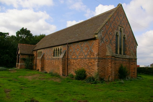 Church at Bursea, East Riding of Yorkshire, England.A Chapel of Ease, by William Butterfield for Thomas Sotheron Estcourt, 1870-2. It only cost £350 but Butterfield had a two year battle with the builder to get it completed to his satisfaction - from York & East Yorkshire by Pevsner. There was a medieval chapel in the hamlet, prior to this building, but it was not on this site.